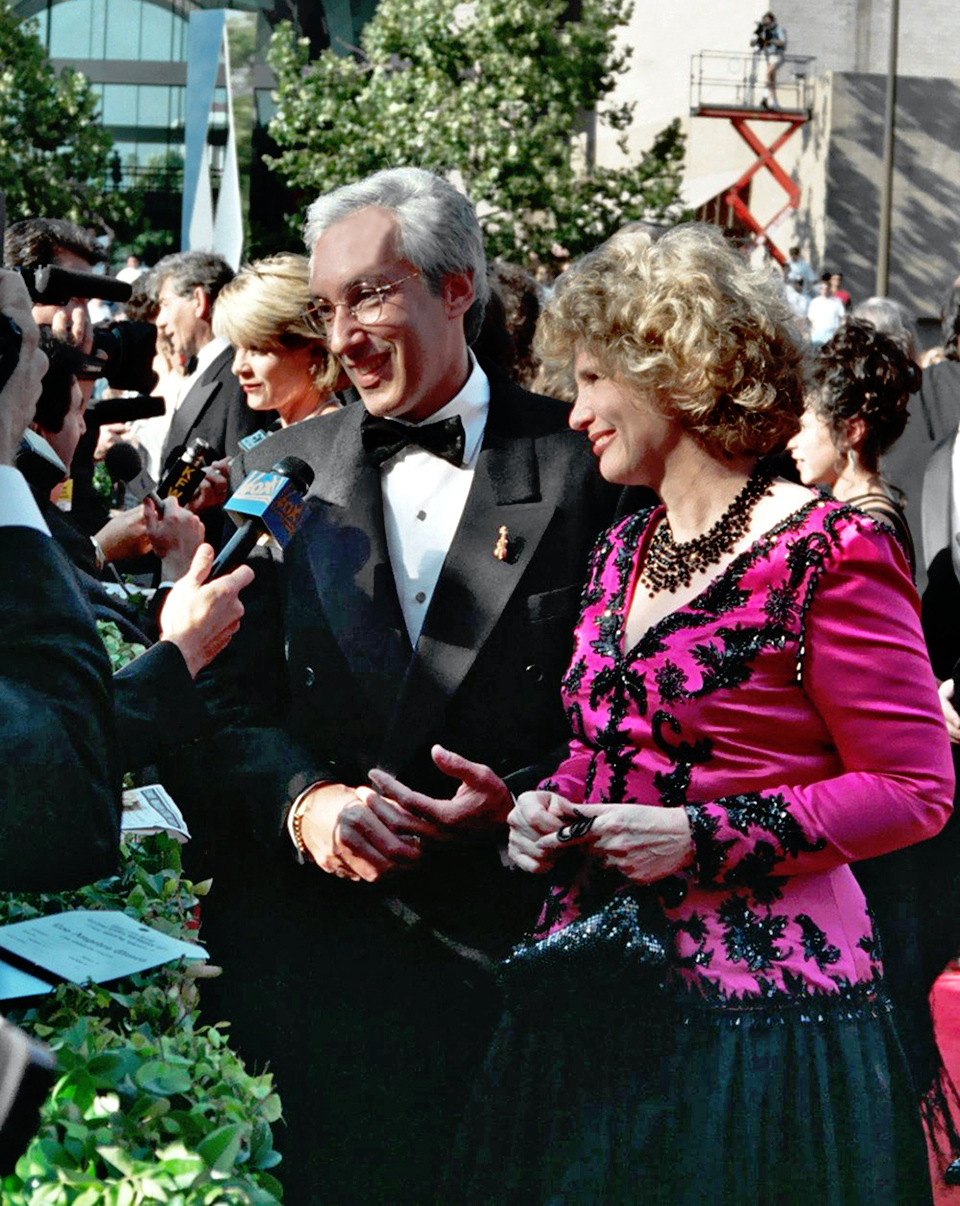 Producer Steven Bochco and wife Barbara Bosson on the red carpet at the Emmys 9/11/94 - Permission granted to copy, publish, broadcast or post but please credit "photo by Alan Light" if you can3849